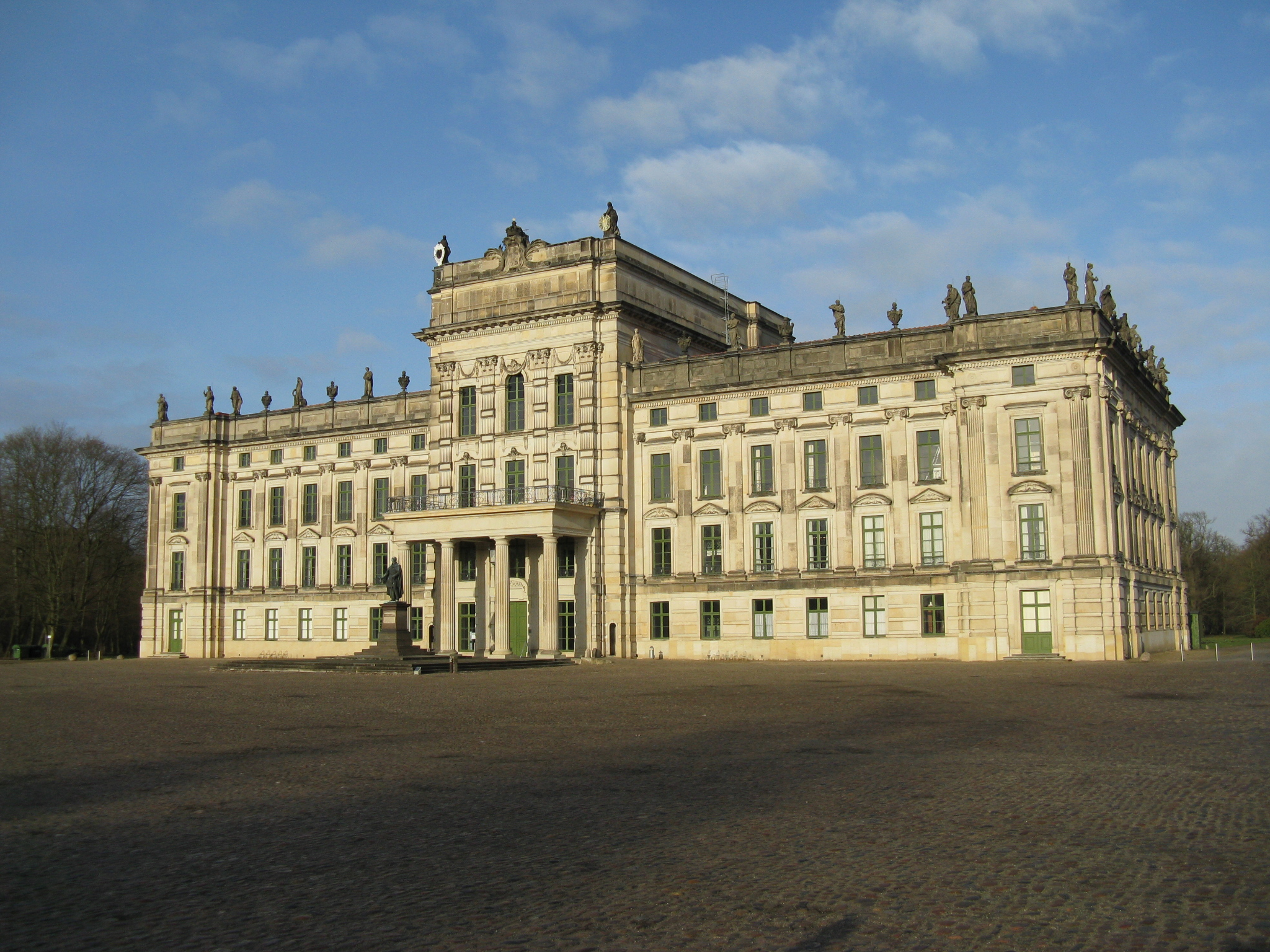 Castle in Ludwigslust, district Ludwigslust-Parchim, Mecklenburg-Vorpommern, Germany